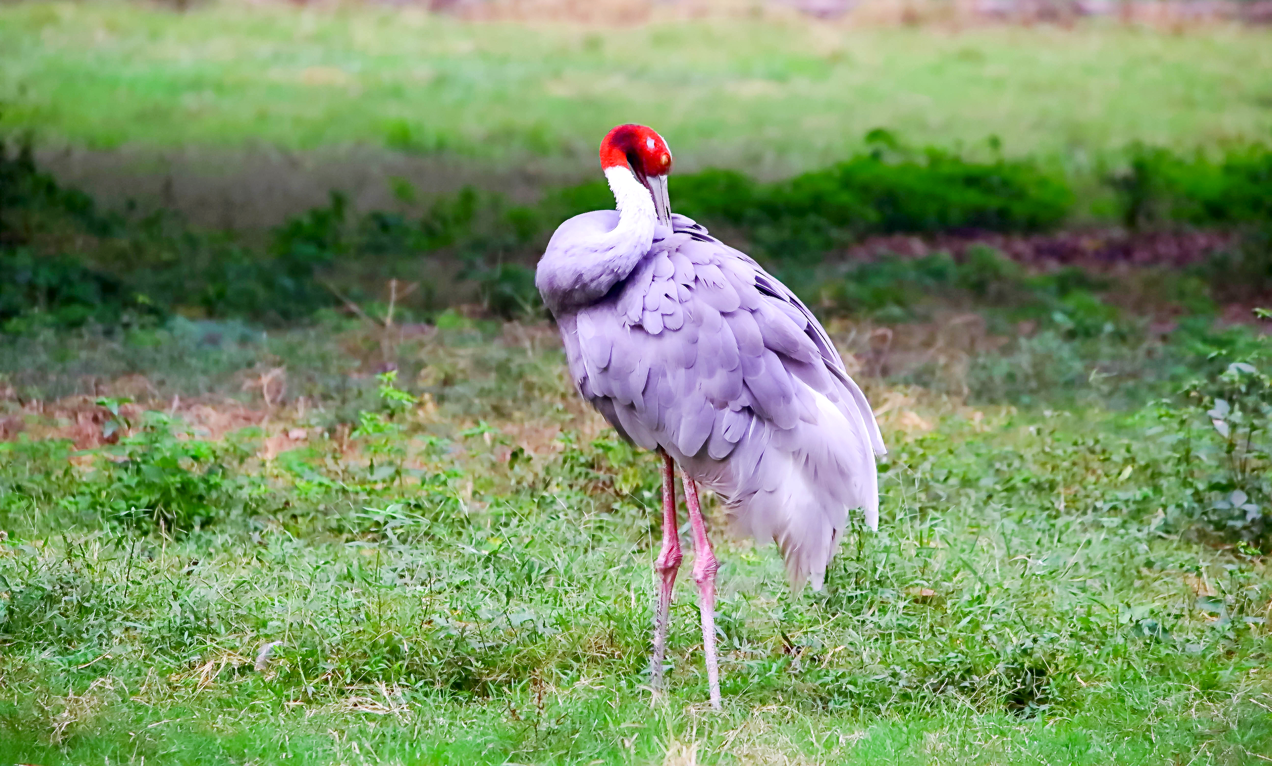 A beautiful moment of sarus crane